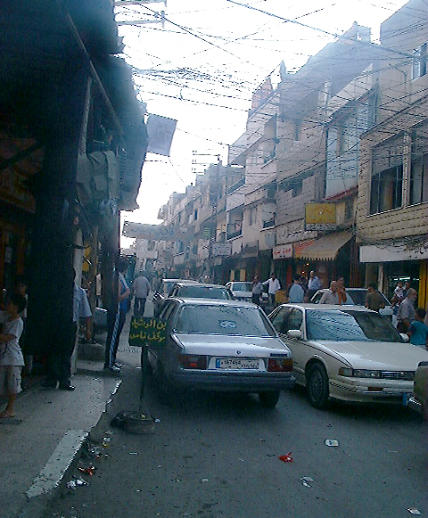 Narrow street in Nahr al-Bared, a Palestinian refugee camp in North Lebanon, near the city of Tripoli. The picture was taken during the summer of 2005, two years before the conflict which devastated the camp.